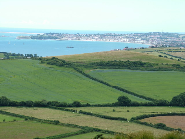 Weymouth Bay from above Osmington White Horse On the left (East) of the photo you can see Chesil Beach and the link to Portland. The blue crop in the fields is probably linseed (unsure).